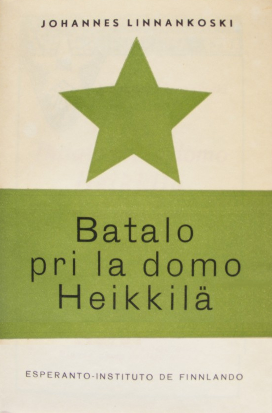 Cover of Batalo pri la domo Heikkilä, the esperanto edition of Taistelu Heikkilän talosta by Johannes Linnankoski.